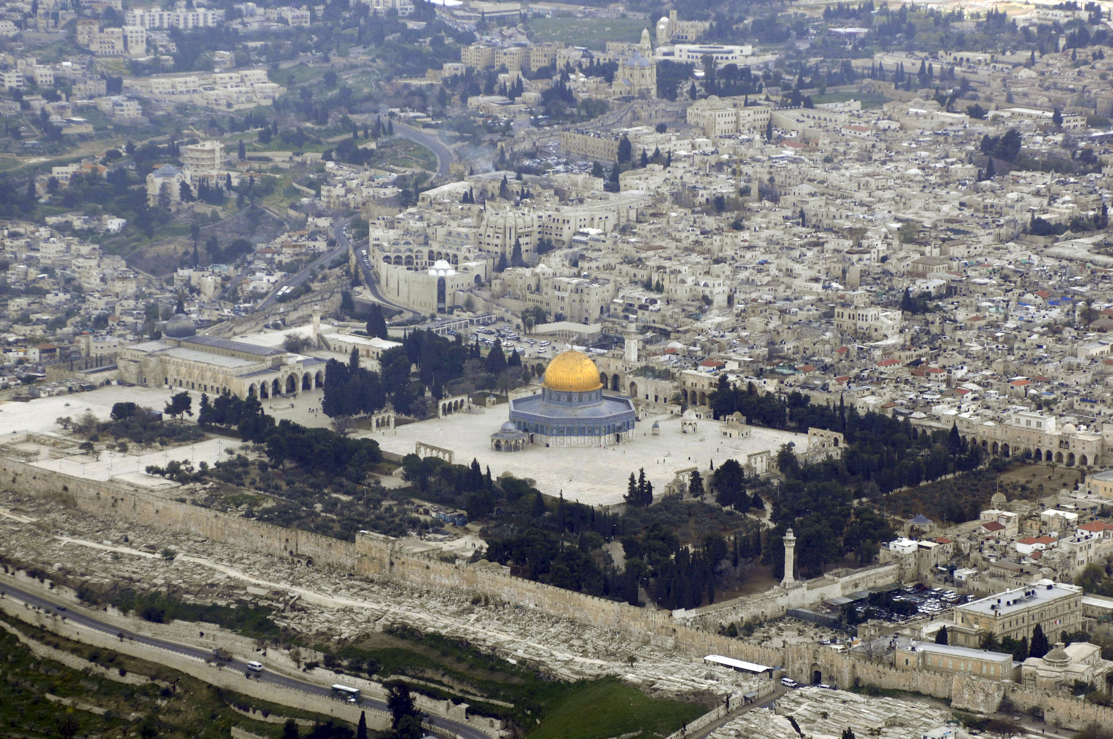 Aerial views of the Temple Mount and parts of the Old City of Jerusalem (2007)